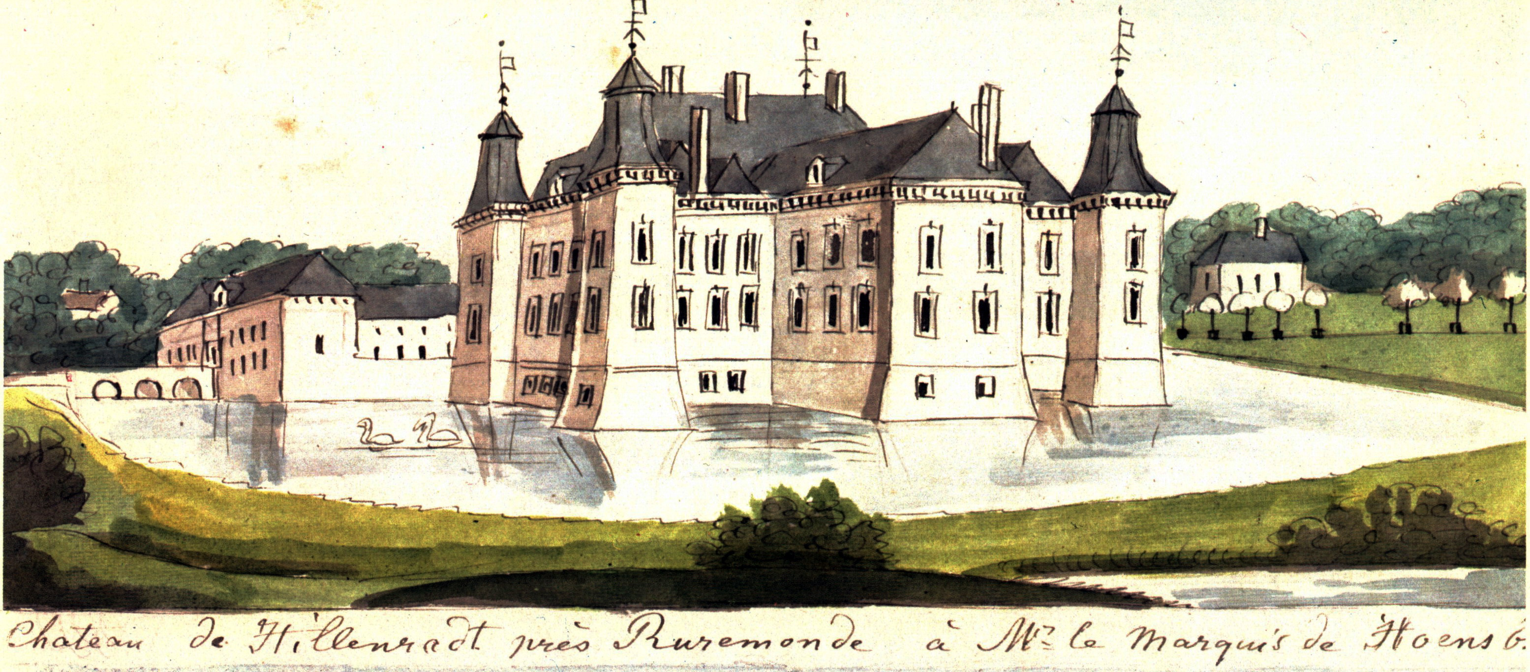 View of Hillenraad Castle in Swalmen, Roermond, Limburg, the Netherlands. Drawing by Philippus van Gulpen (c 1840-60)